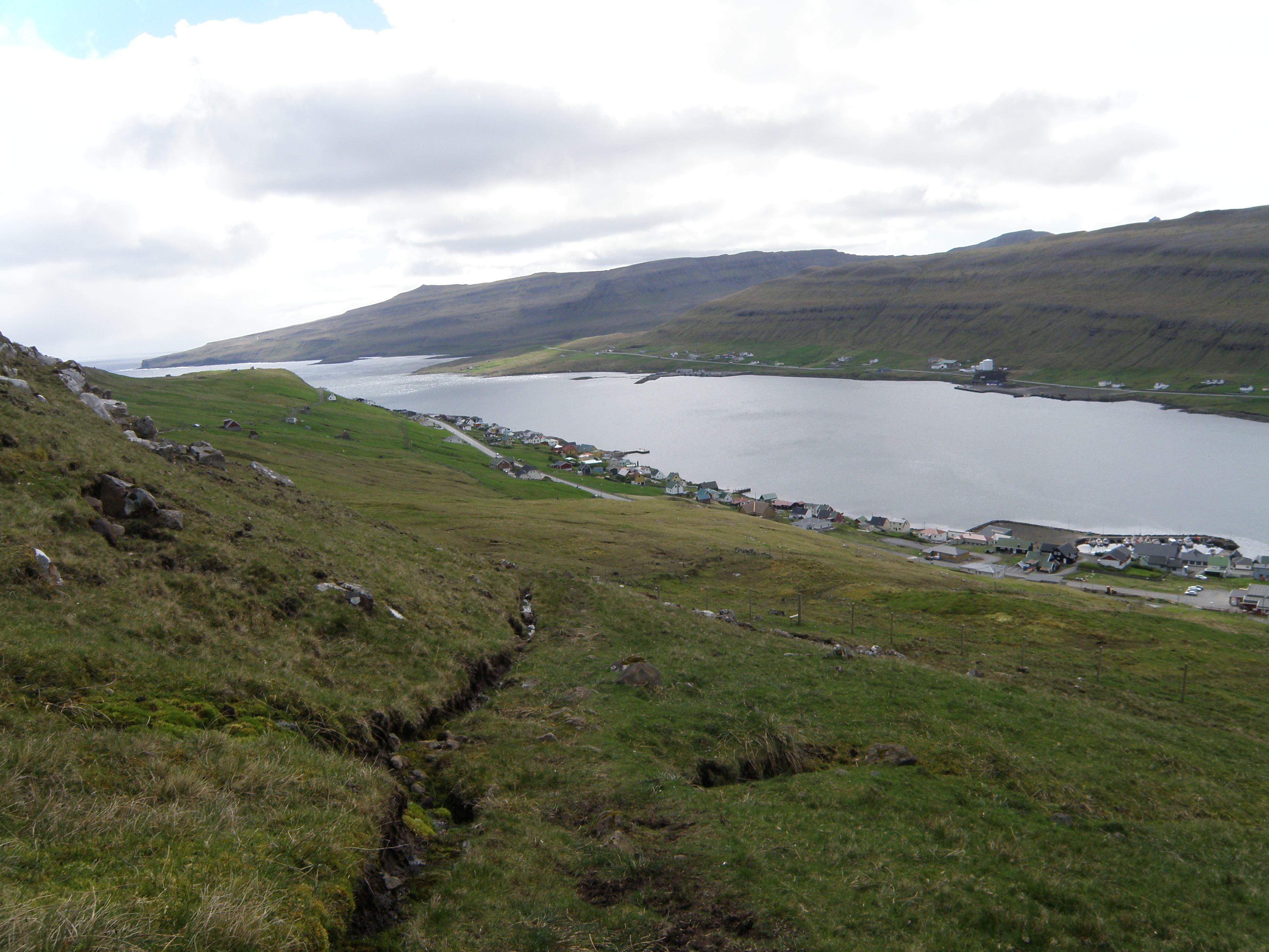 Trongisvágsfjørður is the largest inlet (fjord) in Suðuroy, Faroe Islands. The villages around the fjord are from the northern side from east towards west: Froðba, Tvøroyri and Trongisvágur. On the southern side of the fjord: Øravíkarlíð and Øravík. The ferry port Krambatangi and Drelnes the former ferry port, where a former Saltsilo is located are also on the southern side of the fjord and visible on this photo. Øravík is not visible, but you can see Tjaldavíkshólmur, an islet near Øravík. Føroyskt: Trongisvágsfjørður er størsti fjørður í Suðuroynni. Summi nevna hann Tvøráfjørður, sjálvt í Tvørásanginum, sum Poul F. hevur yrkt verður hann nevndur Tvøráfjørður, men uppruna navnið er Trongisvágsfjørður. Bygdin Trongisvágur var til langt fyrr enn Tvøroyri var bygt fyrst í 1800 talinum (umleið 1832). Á myndini sæst ein partur av Tvøroyri og ein partur av Trongisvági. Trongisvágur er innast á firðinum. Hinumegin fjørðin er Øravíkarlíð, Drelnes har Saltsiloin stendur, og Krambatangi, har Smyril leggur at. Øravík sæst ikki á myndini, heldur ikki Froðba. Tjaldavíkshólmur sæst á myndini, tað er ein hólmur sum er tætt við Tjaldavík og tætt við Øravík.